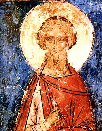 St. Julian of Tarsus (ortodox icon)